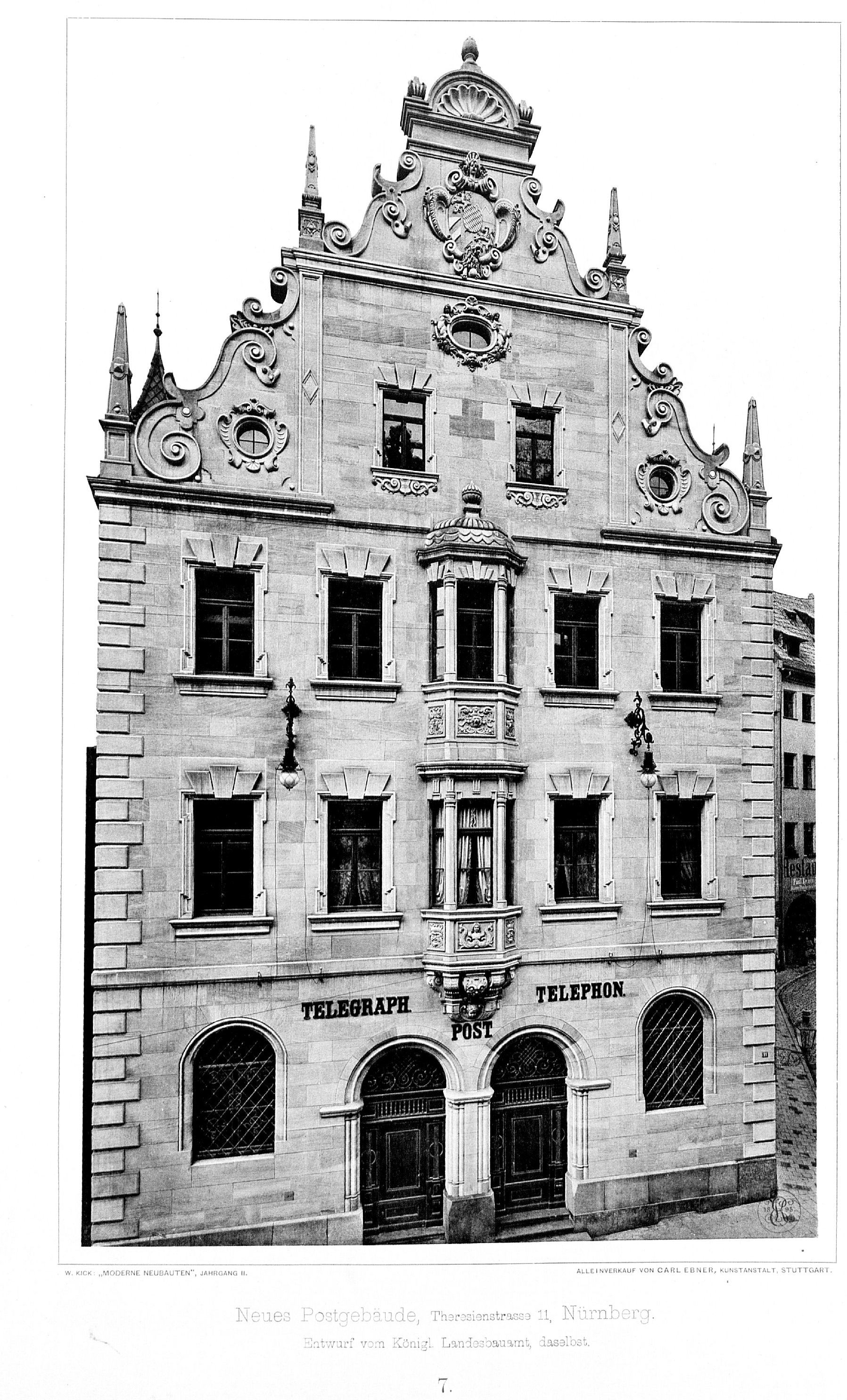 Neues_Postgebäude,_Theresienstraße_11,_Nürnberg,_Königl.Landesbauamt_Nürnberg,_Tafel_7,Kick_Jahrgang_II.jpg